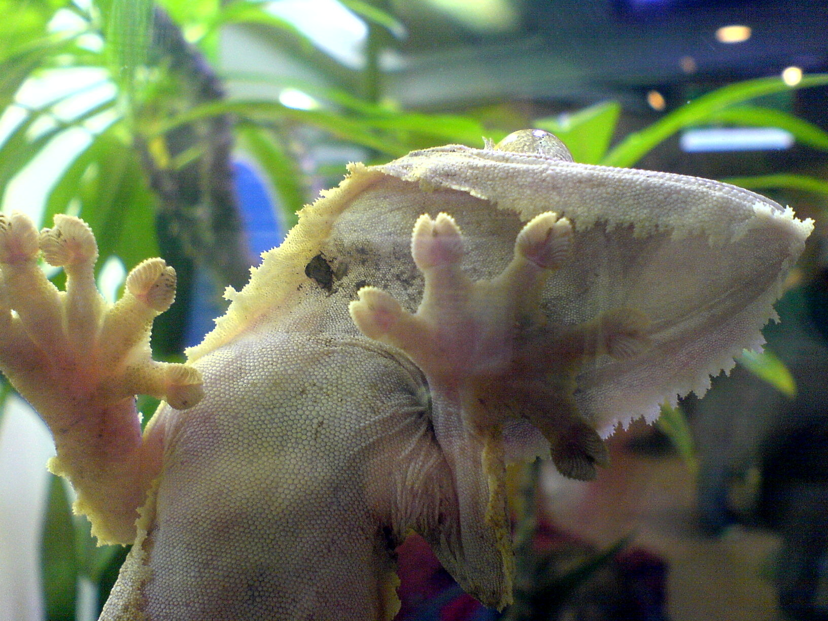 Head and front legs of a Gecko (unspecified species, leaf-shaped tail)